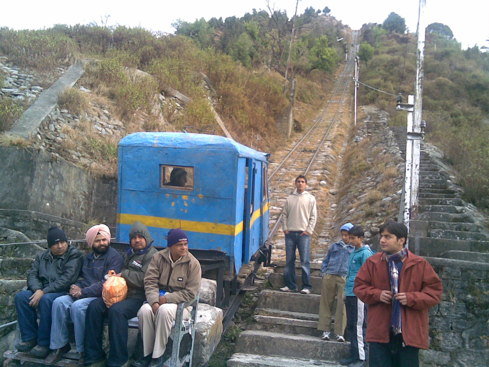 haulage way